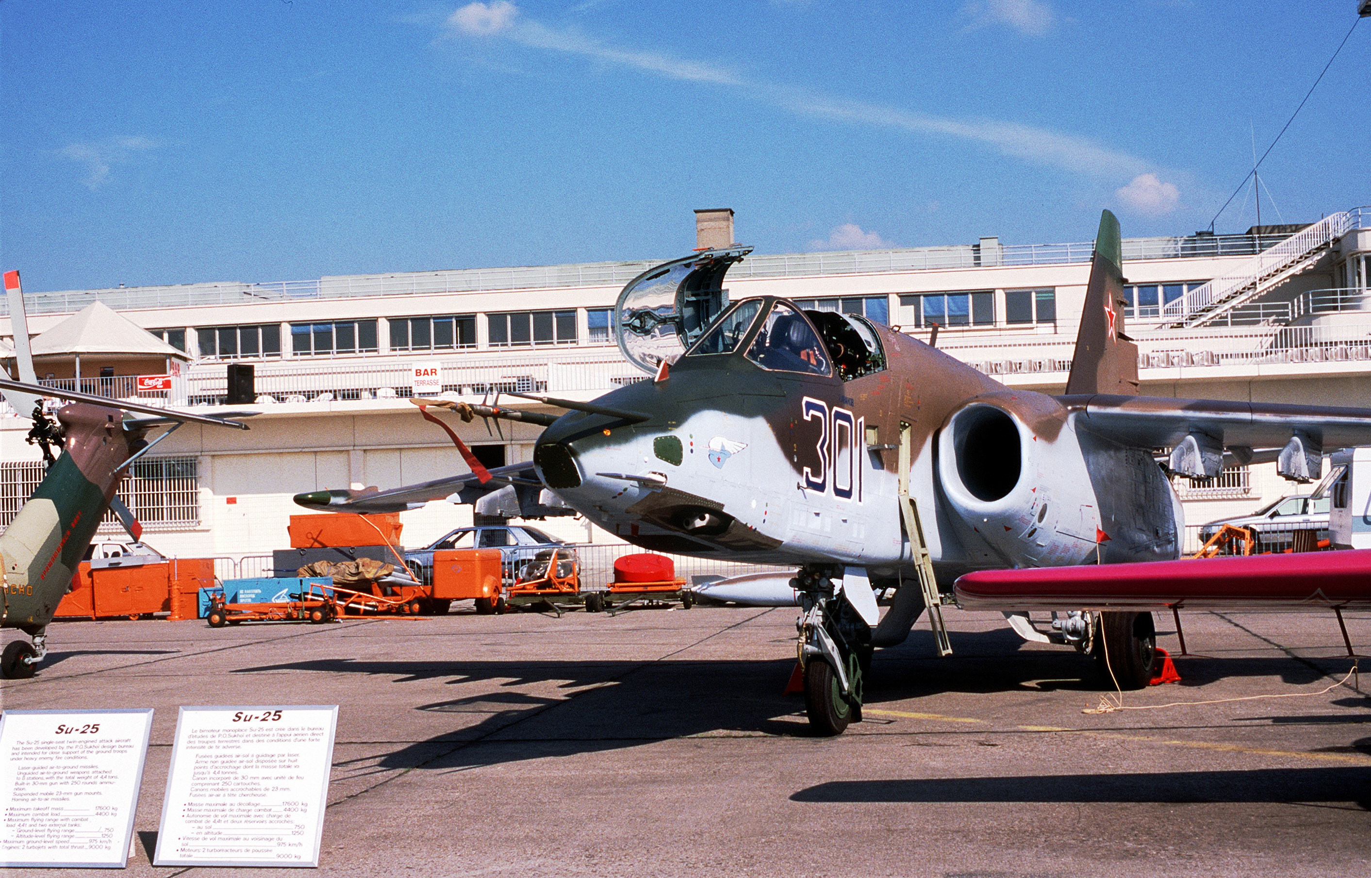 A left front view of a Soviet Su-25 Frogfoot aircraft on display at the 38th Paris International Air and Space Show at Le Bourget Airfield.